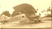 Italian Caproni Ca.148 civil airliner